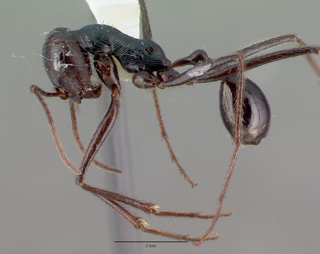 Profile view of ant Ocymyrmex zekhem specimen castype13685.